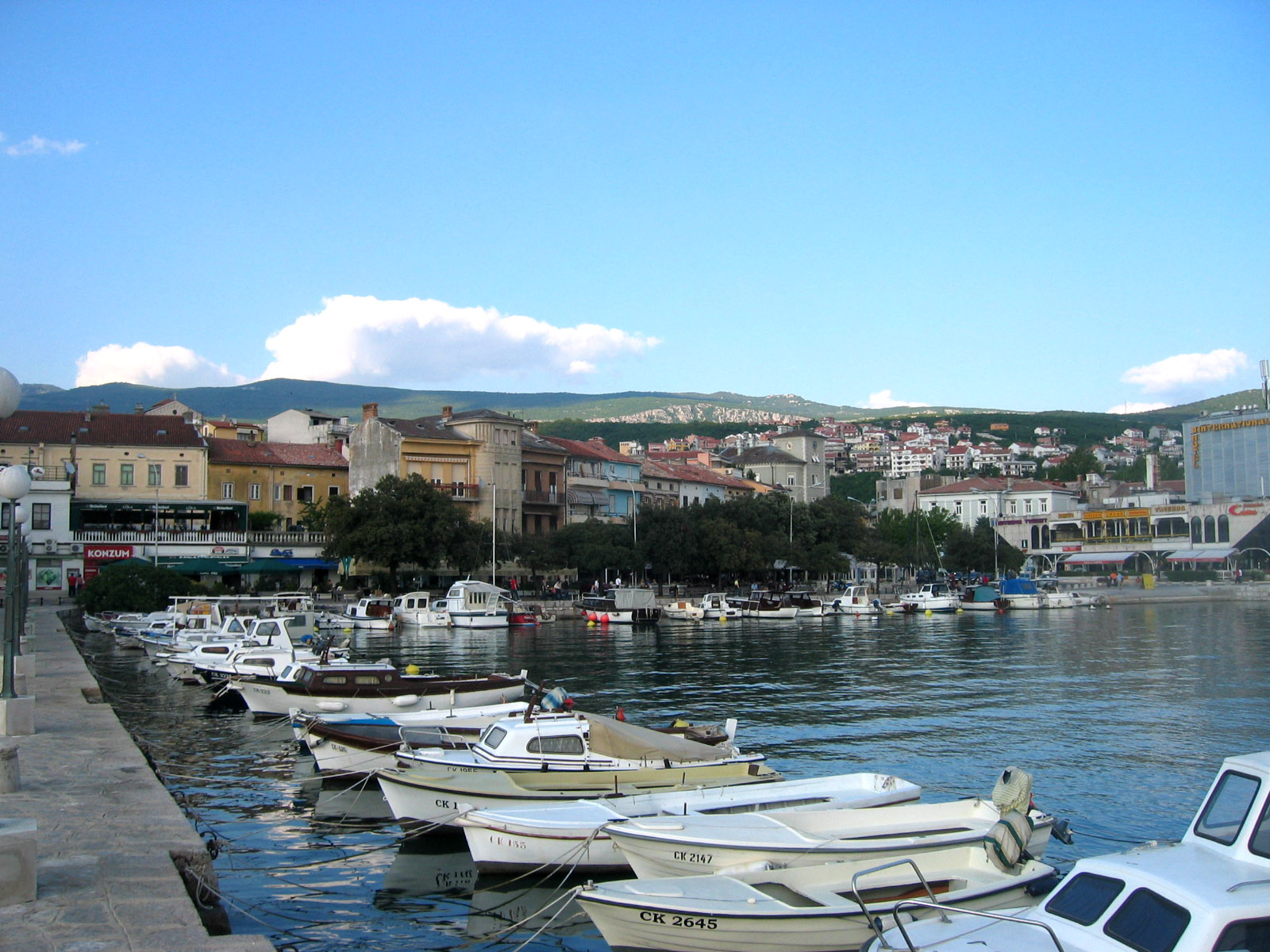 Crikvenica, coastal town in Croatia, north Adriatic sea